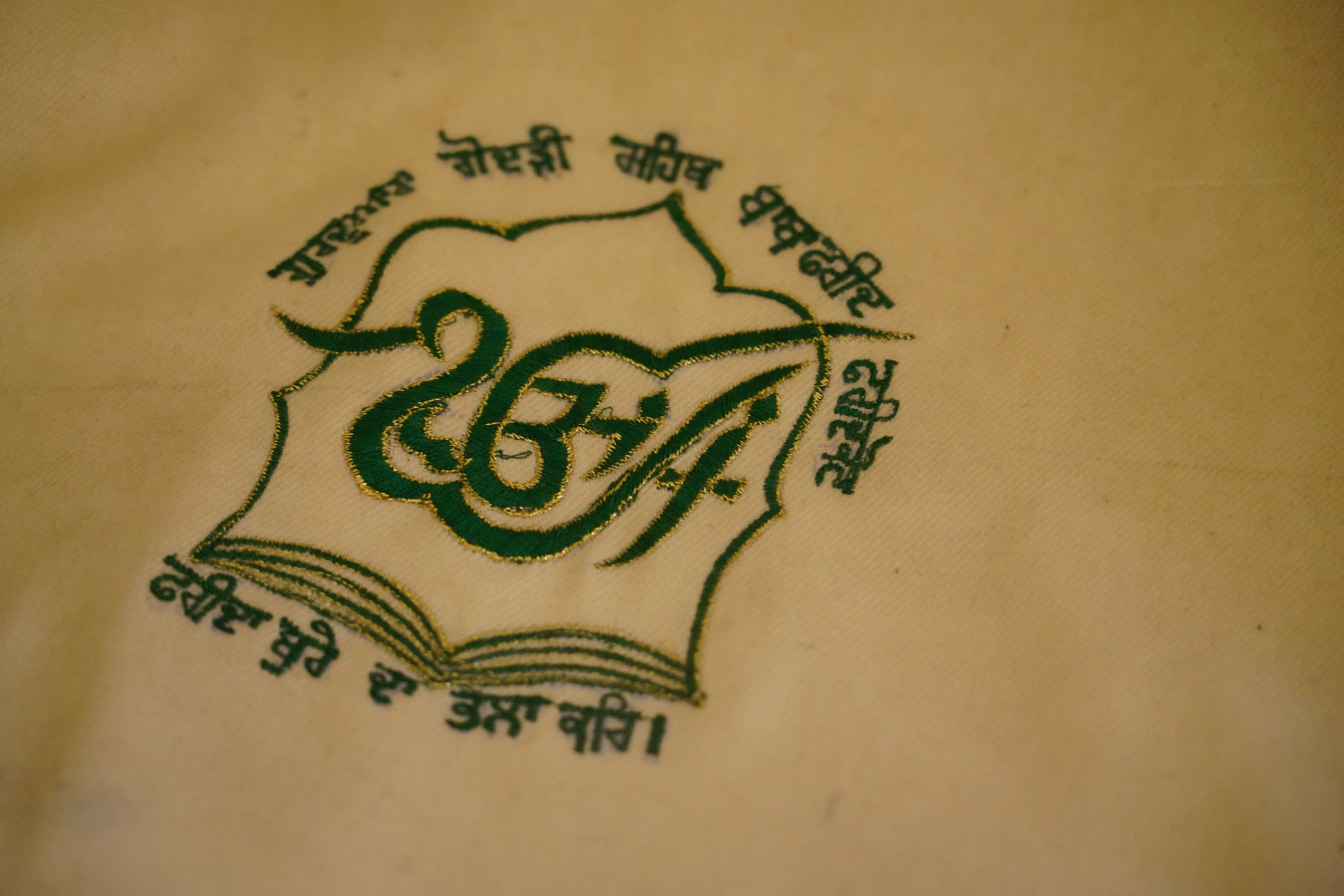 Indian hospice is a monument in Jerusalem. Baba Farid stayed at this place for 40 days while going to Mecca.